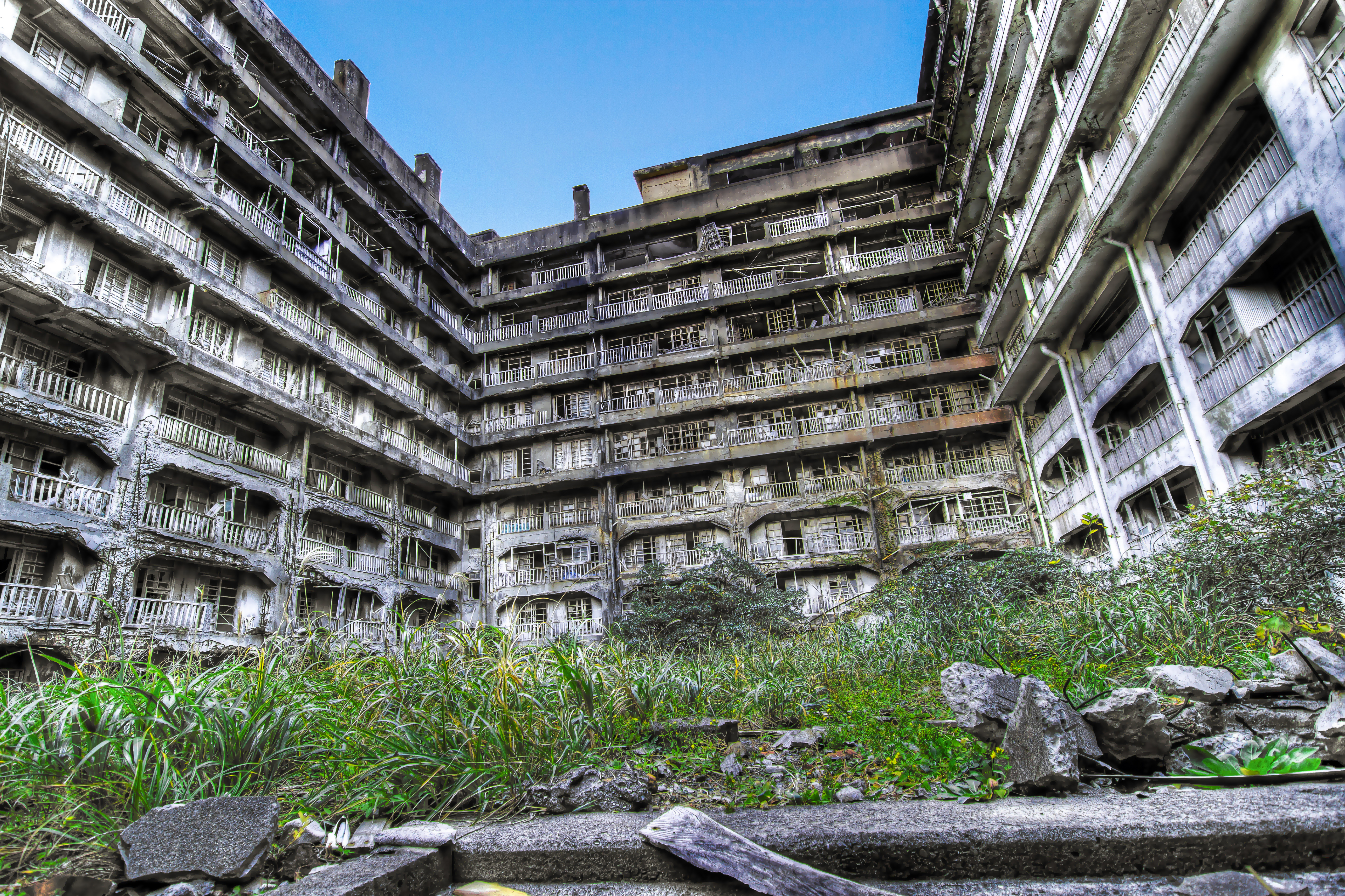 The Block 65 on Gunkanjima in 2010.